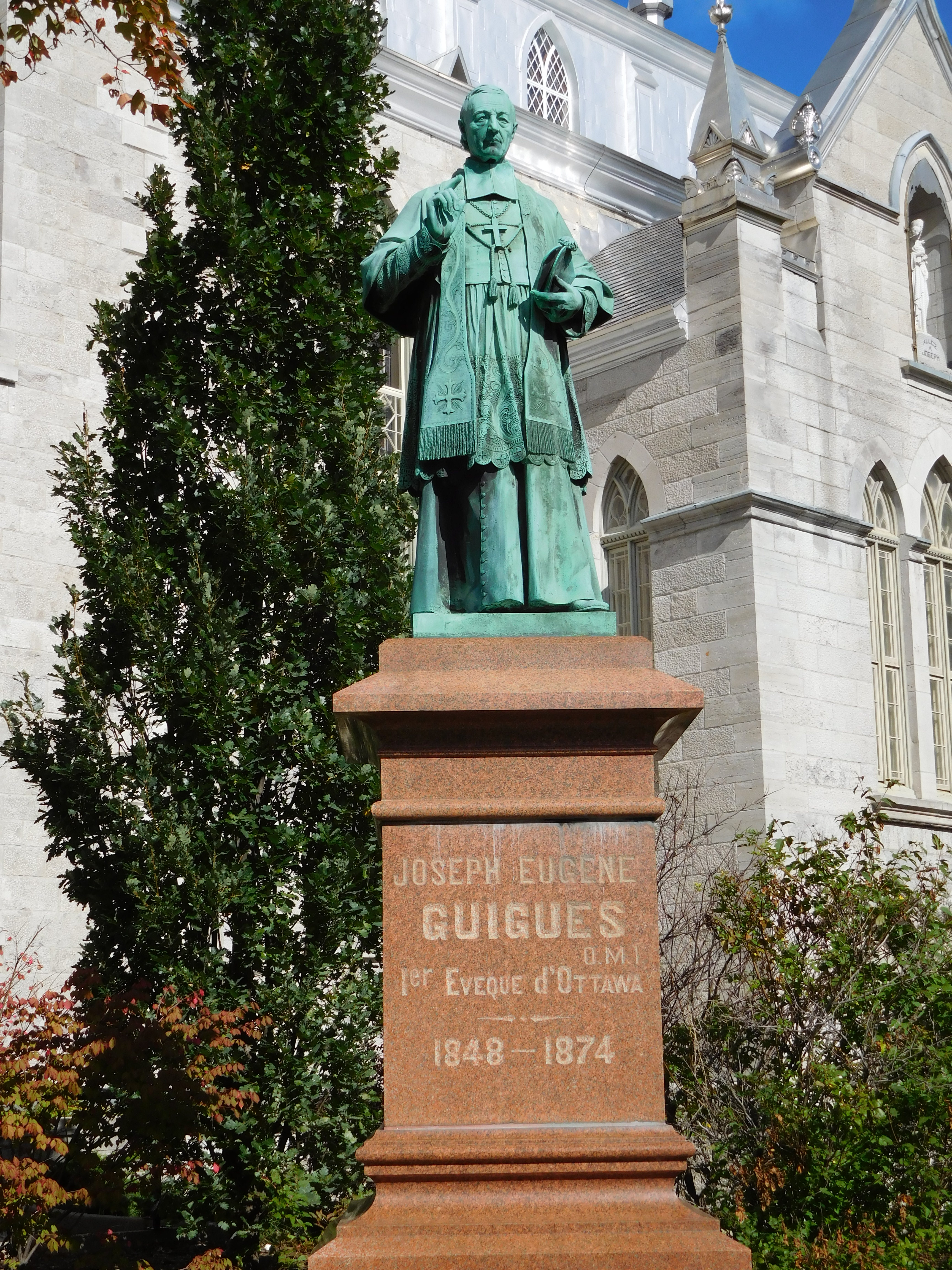 Bishop Joseph Eugene Guigues, statue, Notre-Dame Cathedral Basilica, Ottawa, Ontario, Canada